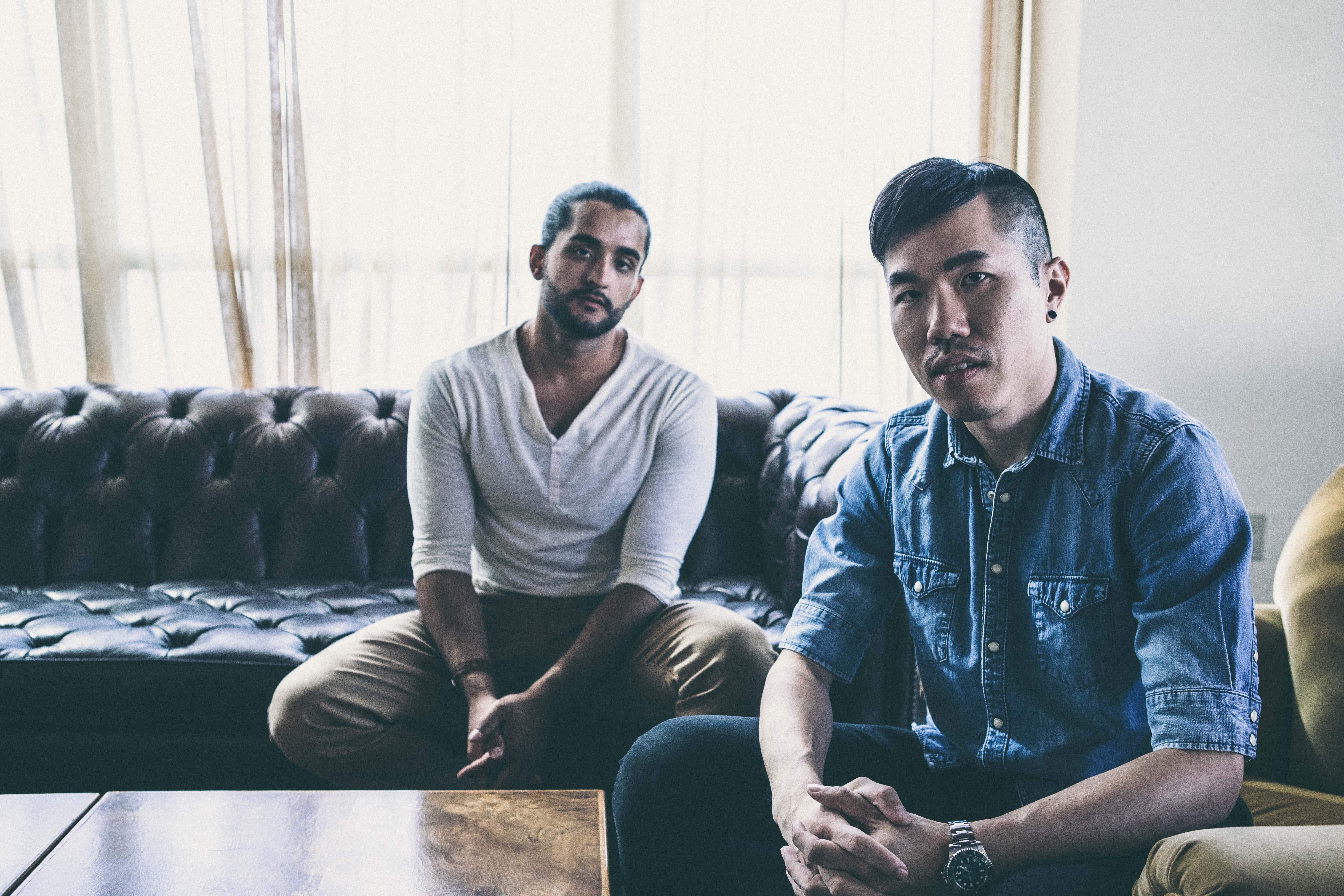 The Swaggernautz in Los Angeles, 2018